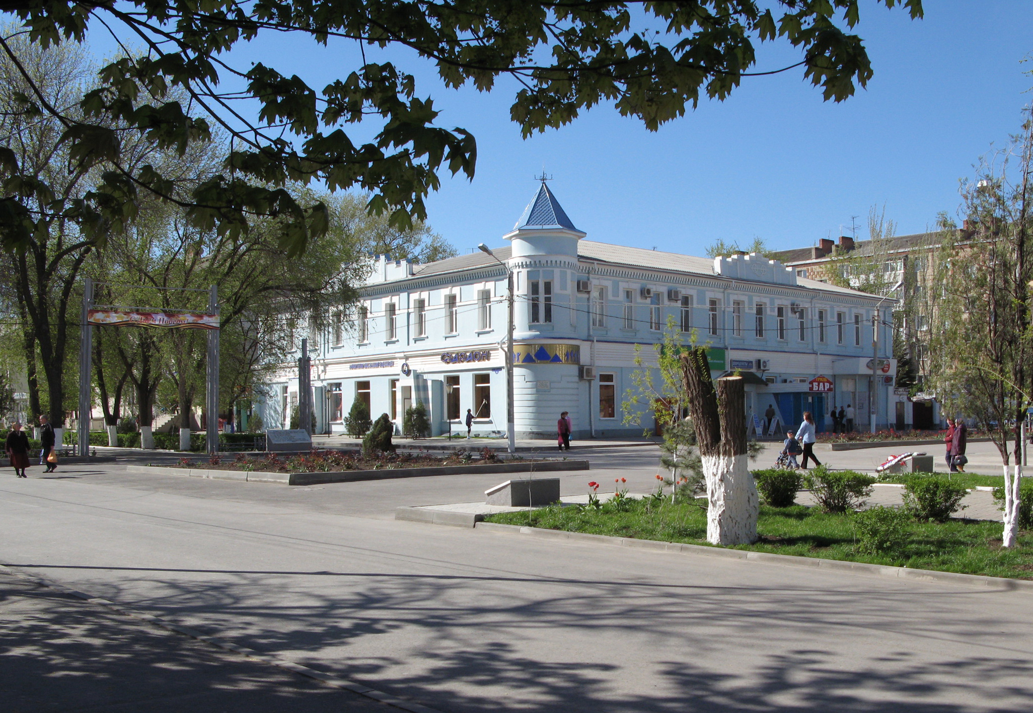 Salsk, Rostov on Don region, Russian Federation, central street, former hotel building of 1926.